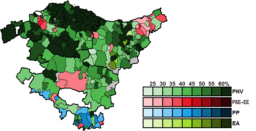 Most-voted party in Basque Country municipalities, showing vote share obtained, in the Spanish general election, 2004.